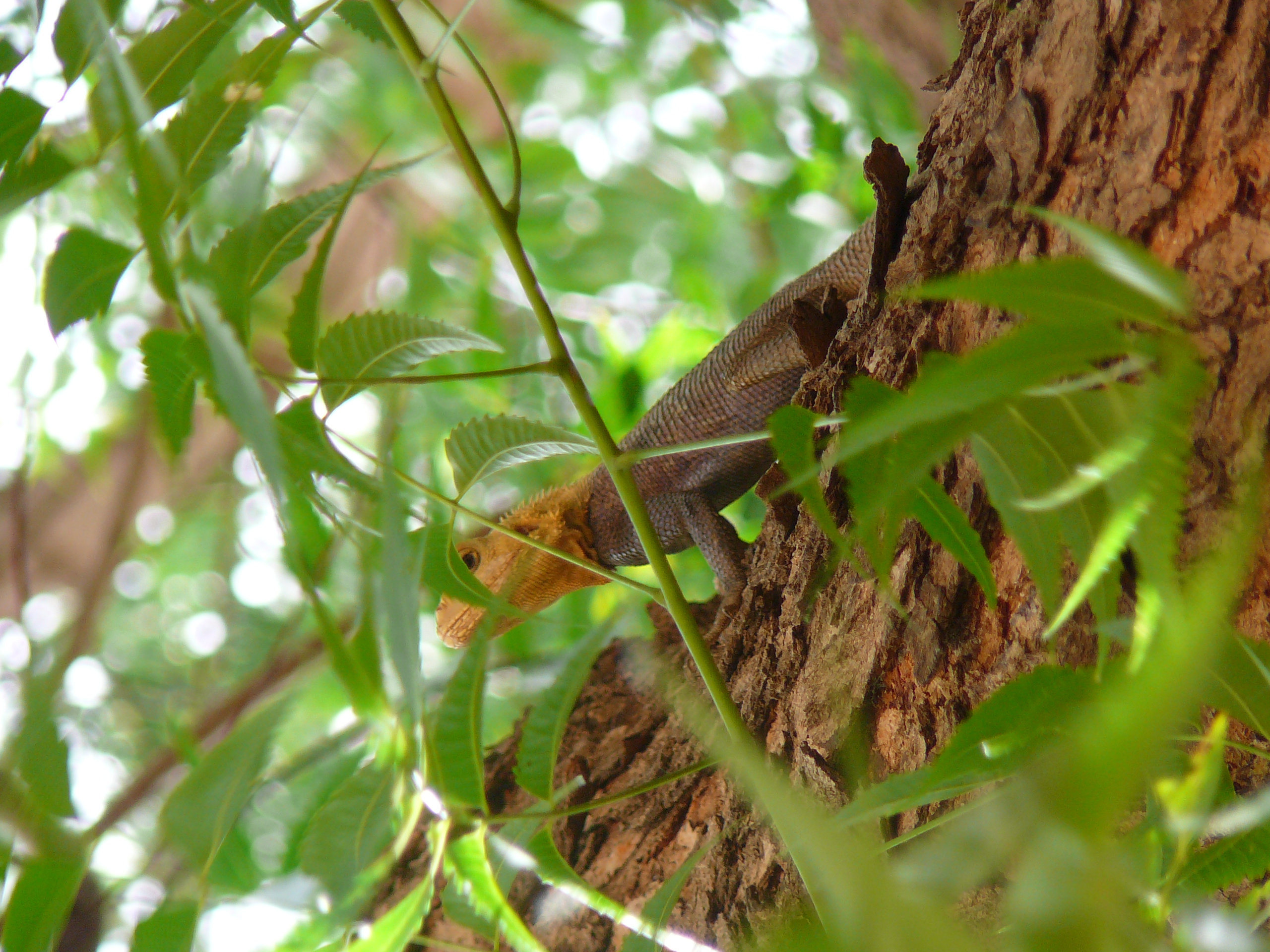 Agama lizard, male